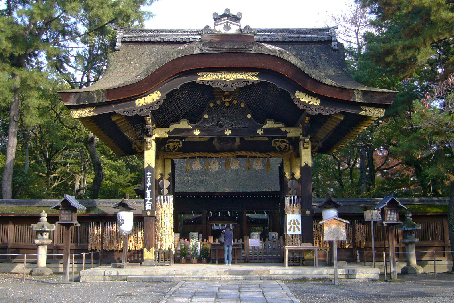 Toyokuni-jinja, in Kyoto, Kyoto prefecture, Japan